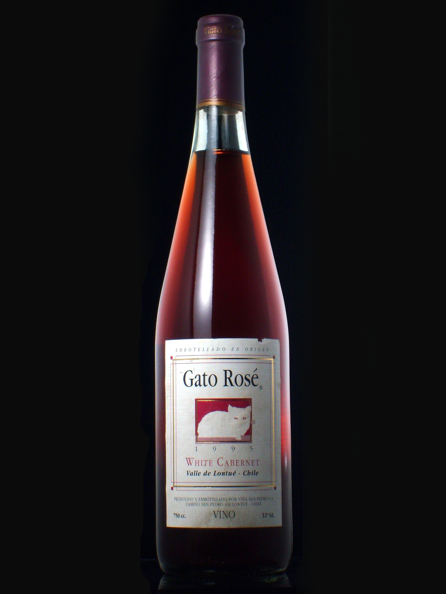 Bottle of Gato Rosé wine, type Cabernet Blanco from the year 1995 in the city of Lontué, Chile.